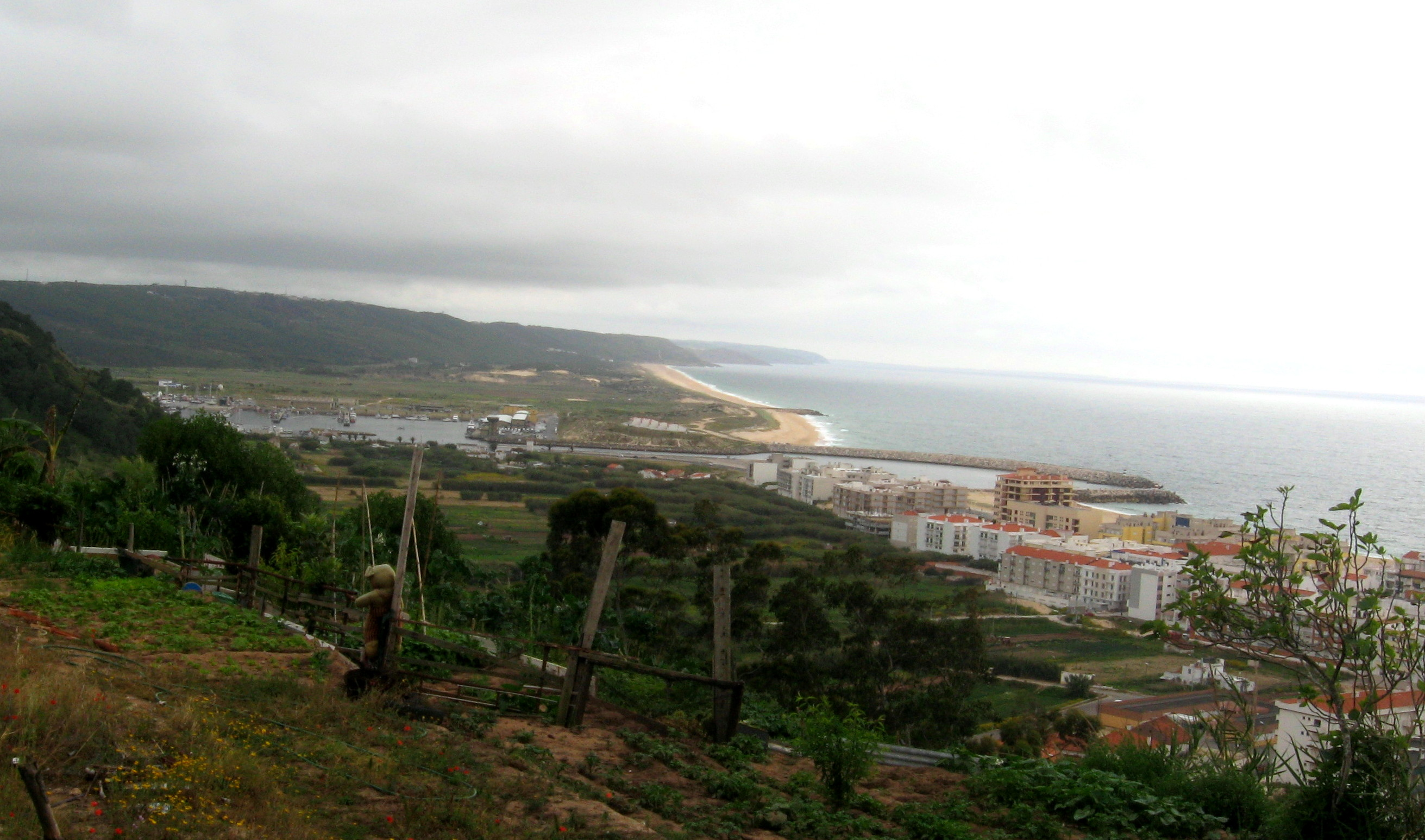 Nazaré, port and Praia do Salgado, aluvial land